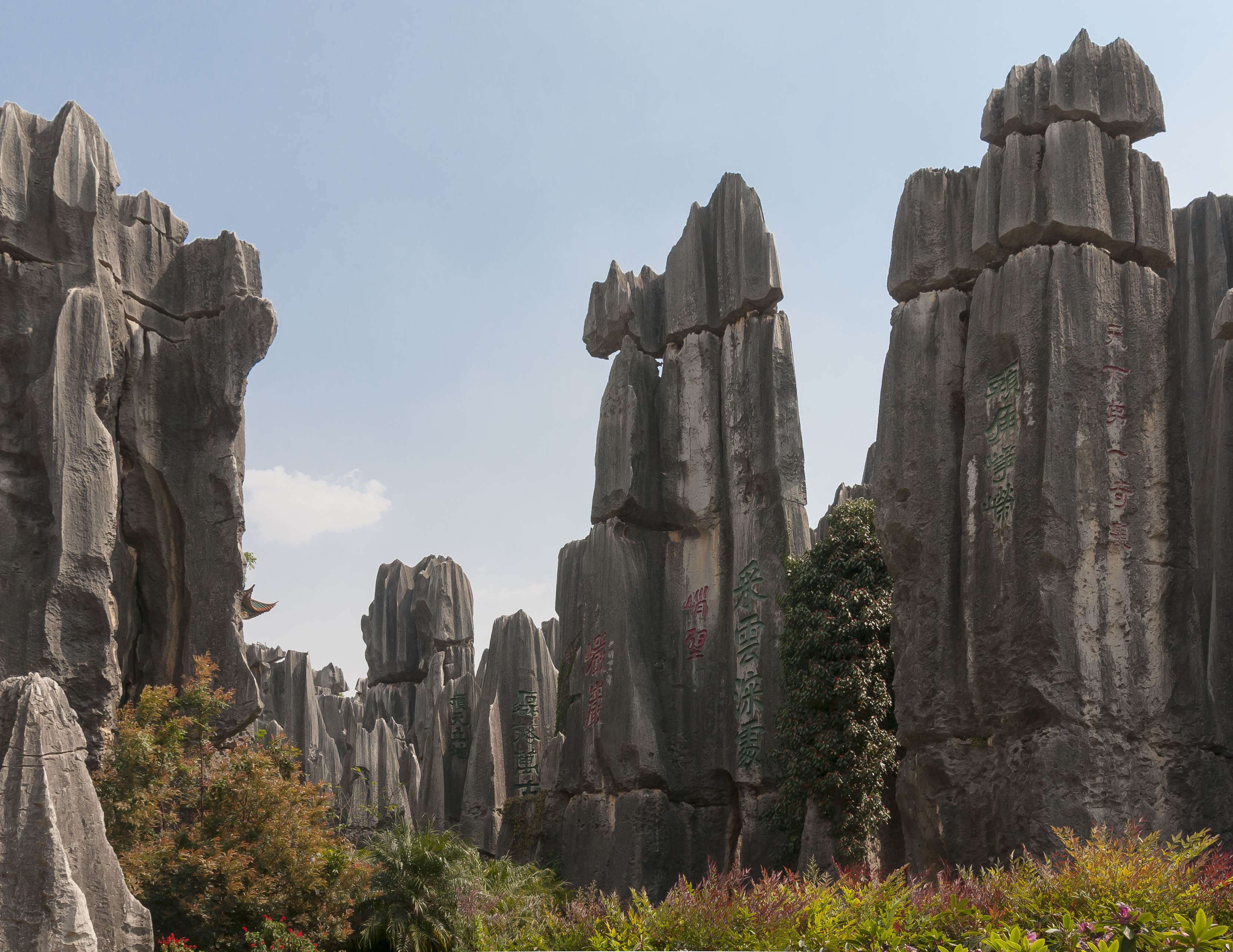 Shilin, Yunnan, China: Stone forest, a set of Karst Limestone rock formations. Part of the UNESCO South China Karst World Heritage Site.